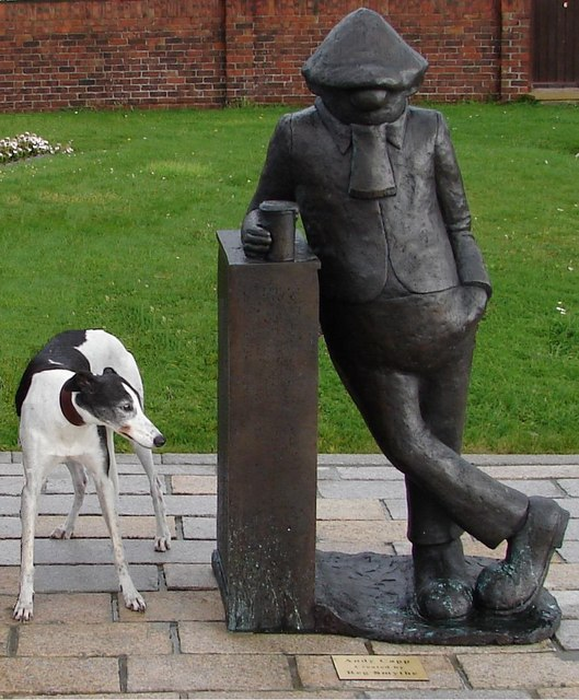 Andy Capp Statue The statue of cartoon character Andy Capp in Croft Terrace on The Headland, Hartlepool. It was unveiled in 2007 by the widow of Andy’s creator Reg Smythe. Here it is being visited by a fan – Katy, a rescued greyhound from SW Scotland.